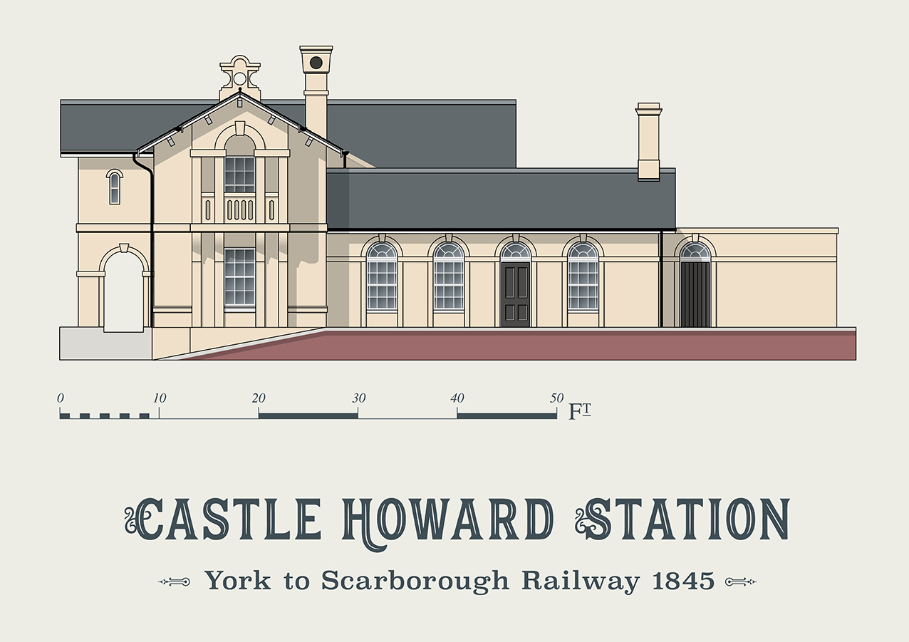 Precise drawing of Castle Howard Railway Station originally designed by George Townsend Andrews. The building still exists on the York to Scarborough railway line, but it is now a private residence.